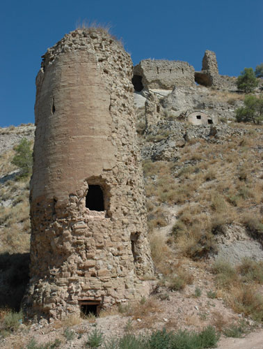 Castelló de Farfanya castle. La Noguera, Catalonia, Spain